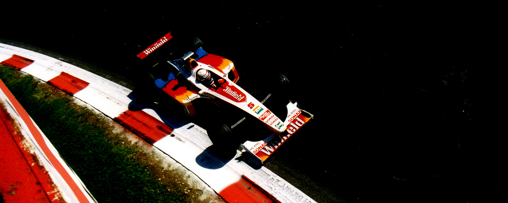 Alex Zanardi testing for WilliamsF1 at Monza in 1999.